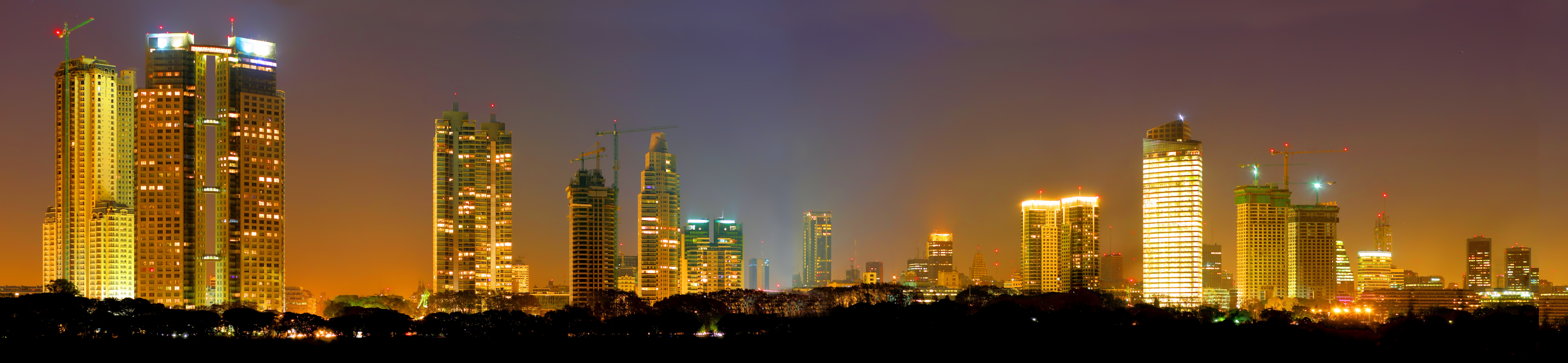 Puerto Madero as seen from the Natural Reserve Costanera Sur (RECS)